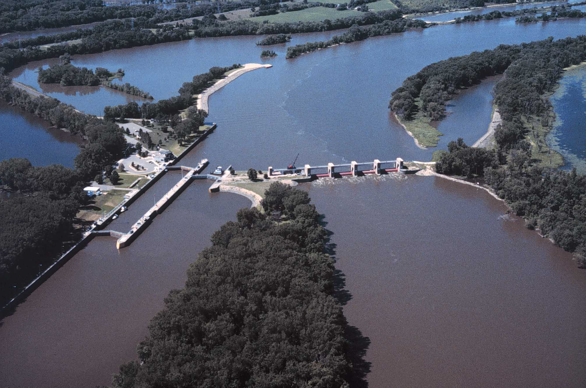 Mississippi River Lock and Dam number 3 near Diamond Bluff, Wisconsin